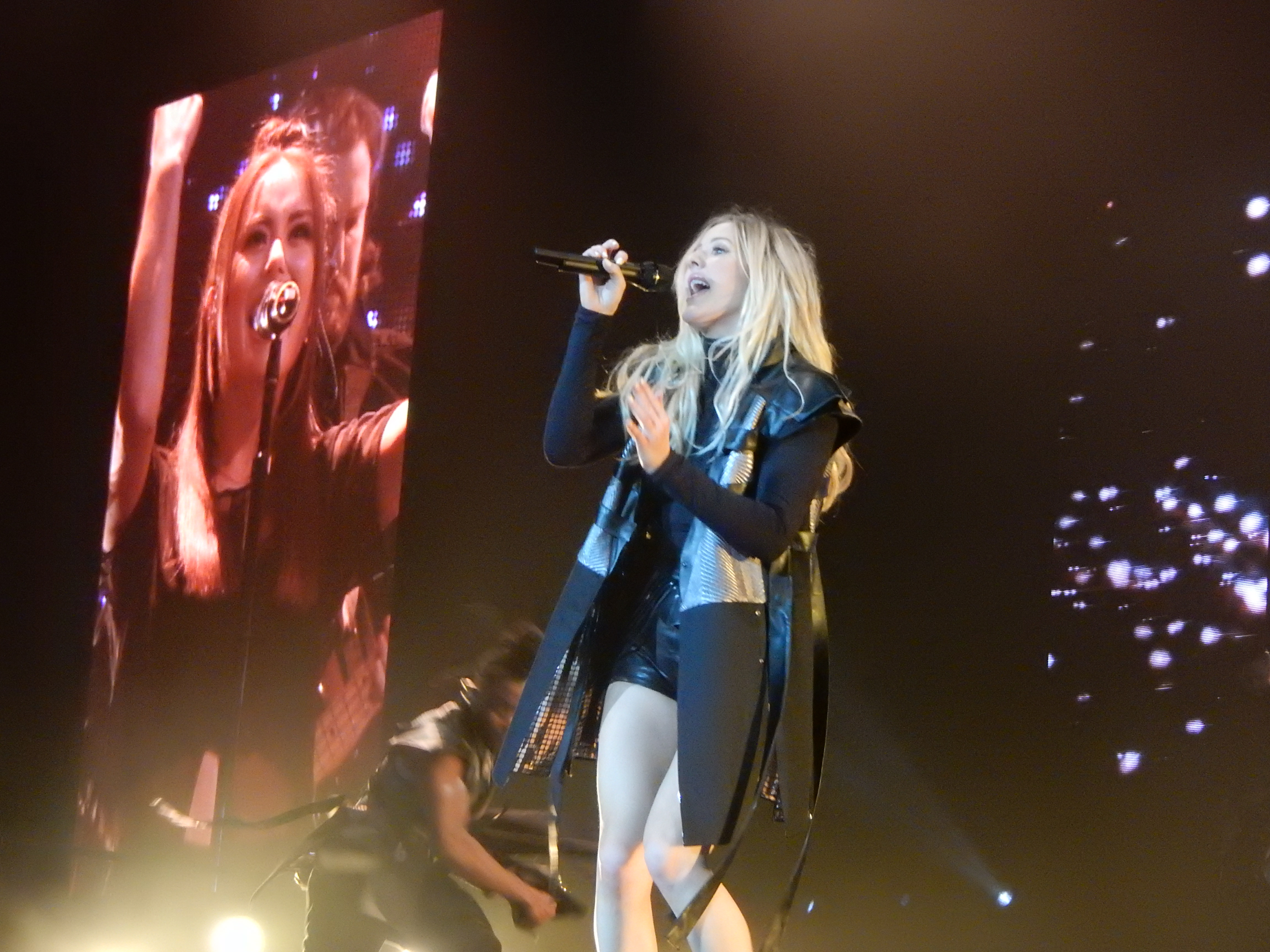 Ellie Goulding, O2 Arena, London